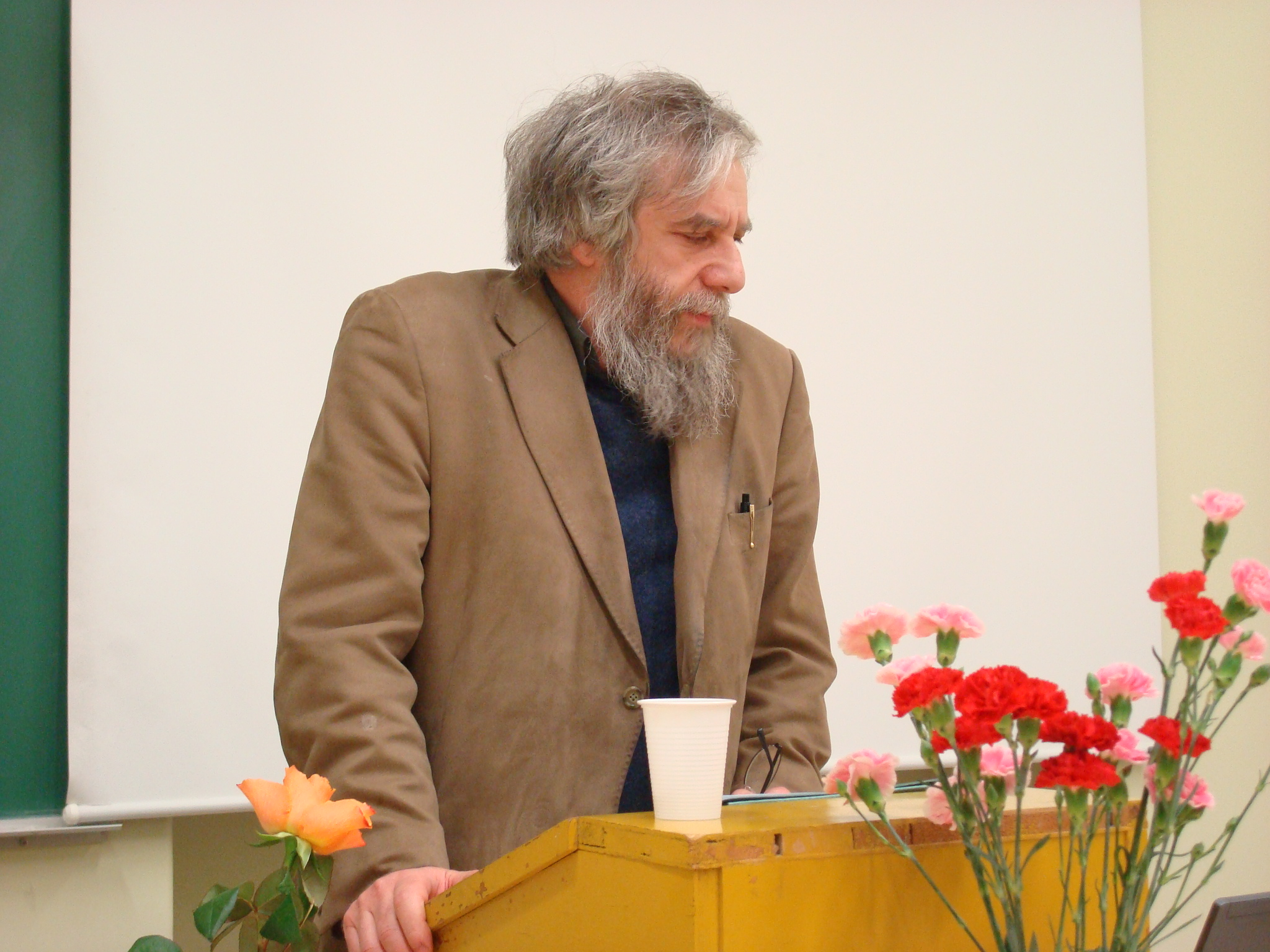 Mikhail Lotman (born 1952) is an Estonian literature researcher and politician